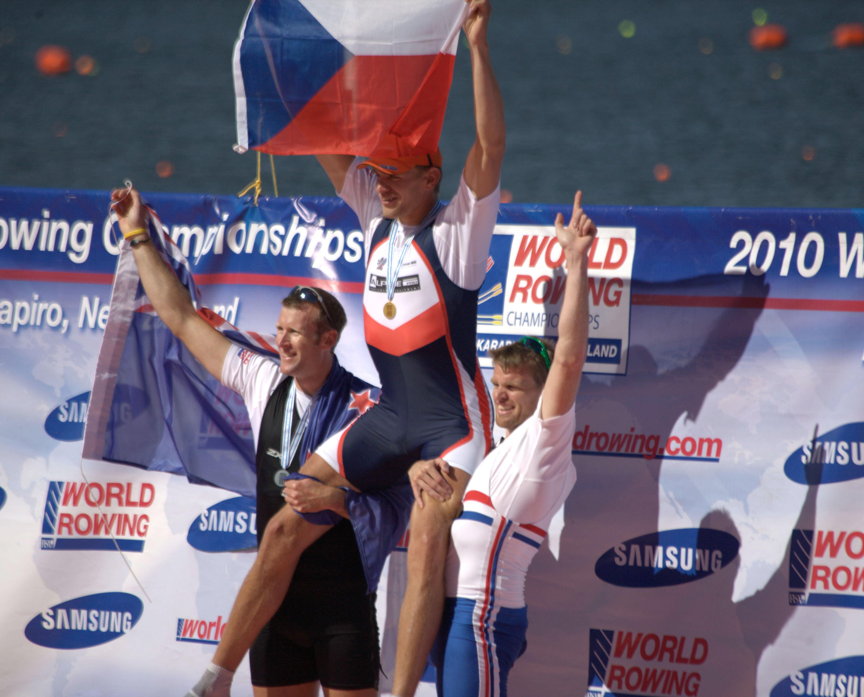 2010 World Rowing Championships: It's become traditional for the men's singles medallists to do this. L-R: Mahe Drysdale (NZL), Ondrej Synek (CZE), Alan Campbell (GBR)